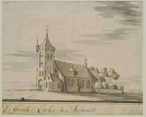 The Big Church at Brevoort